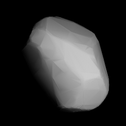 3D convex shape model of 1534 Näsi, computed using light curve inversion techniques. J. Hanuš, J. Ďurech, M. Brož, B. D. Warner (June 2011). "A study of asteroid pole-latitude distribution based on an extended set of shape models derived by the lightcurve inversion method". Astronomy and Astrophysics 530: A134. ISSN 0004-6361. arXiv